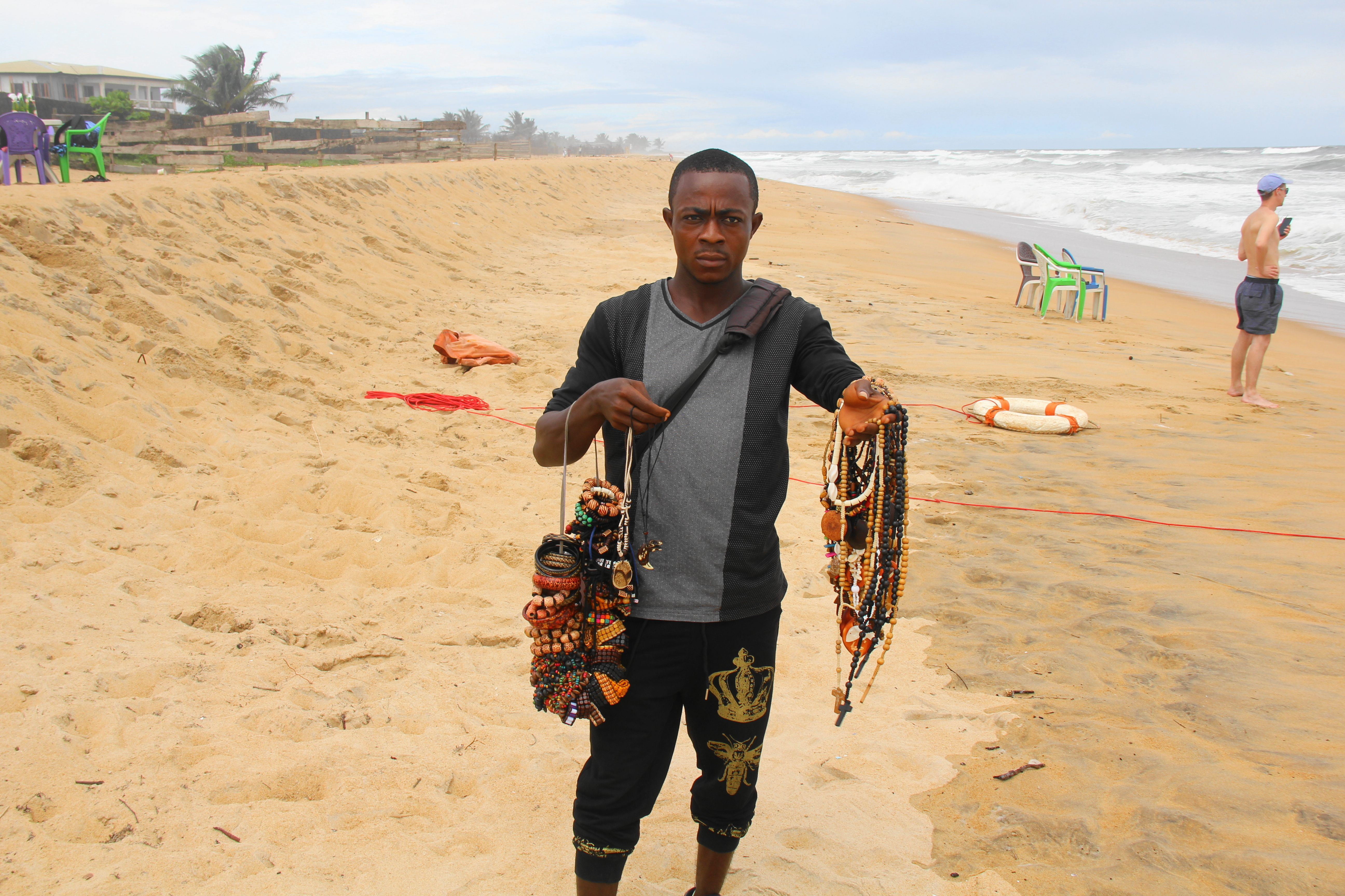 Life in Afrika This is an image of "African people at work" from Liberia